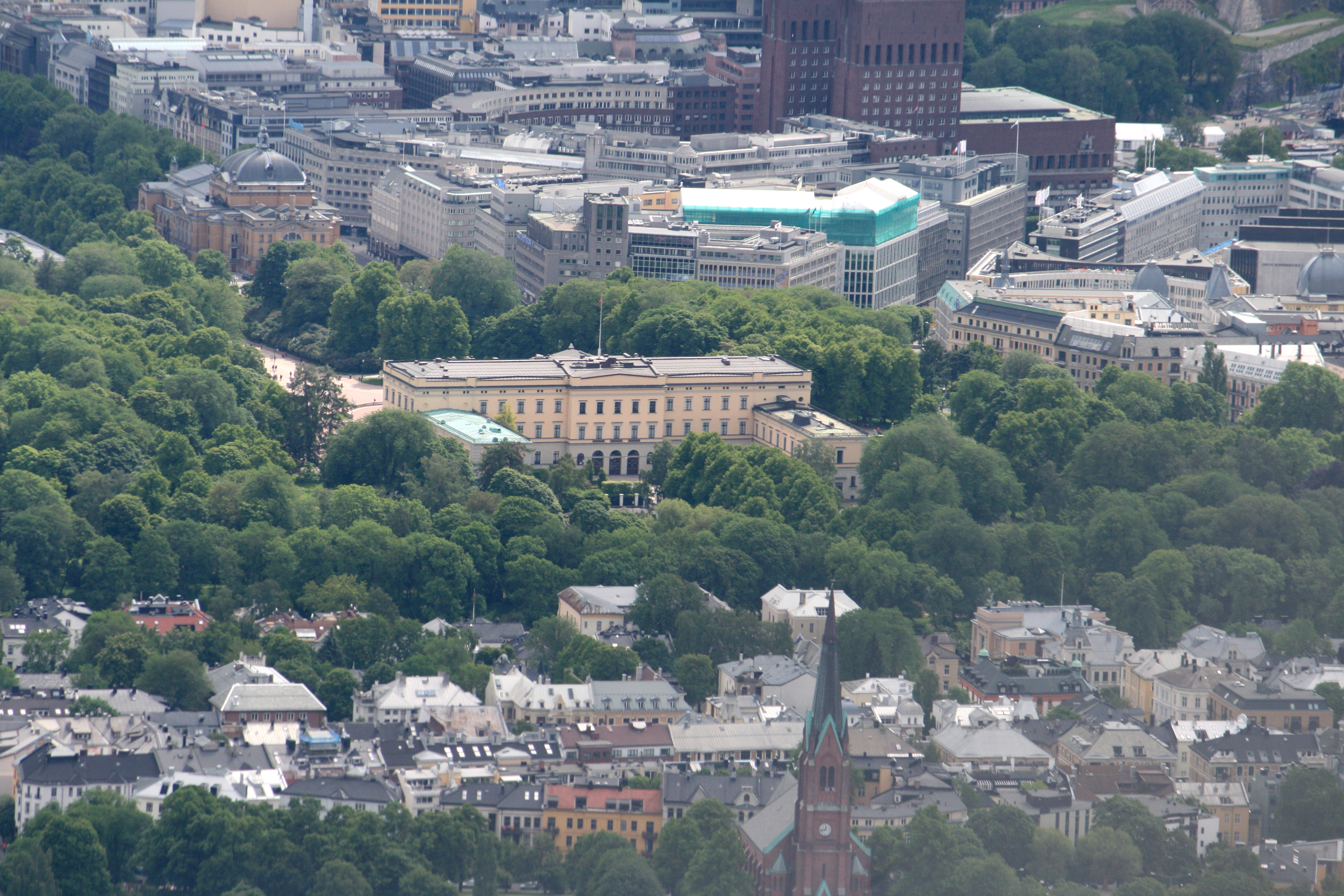 Aerial photograph from June 14th, 2015.